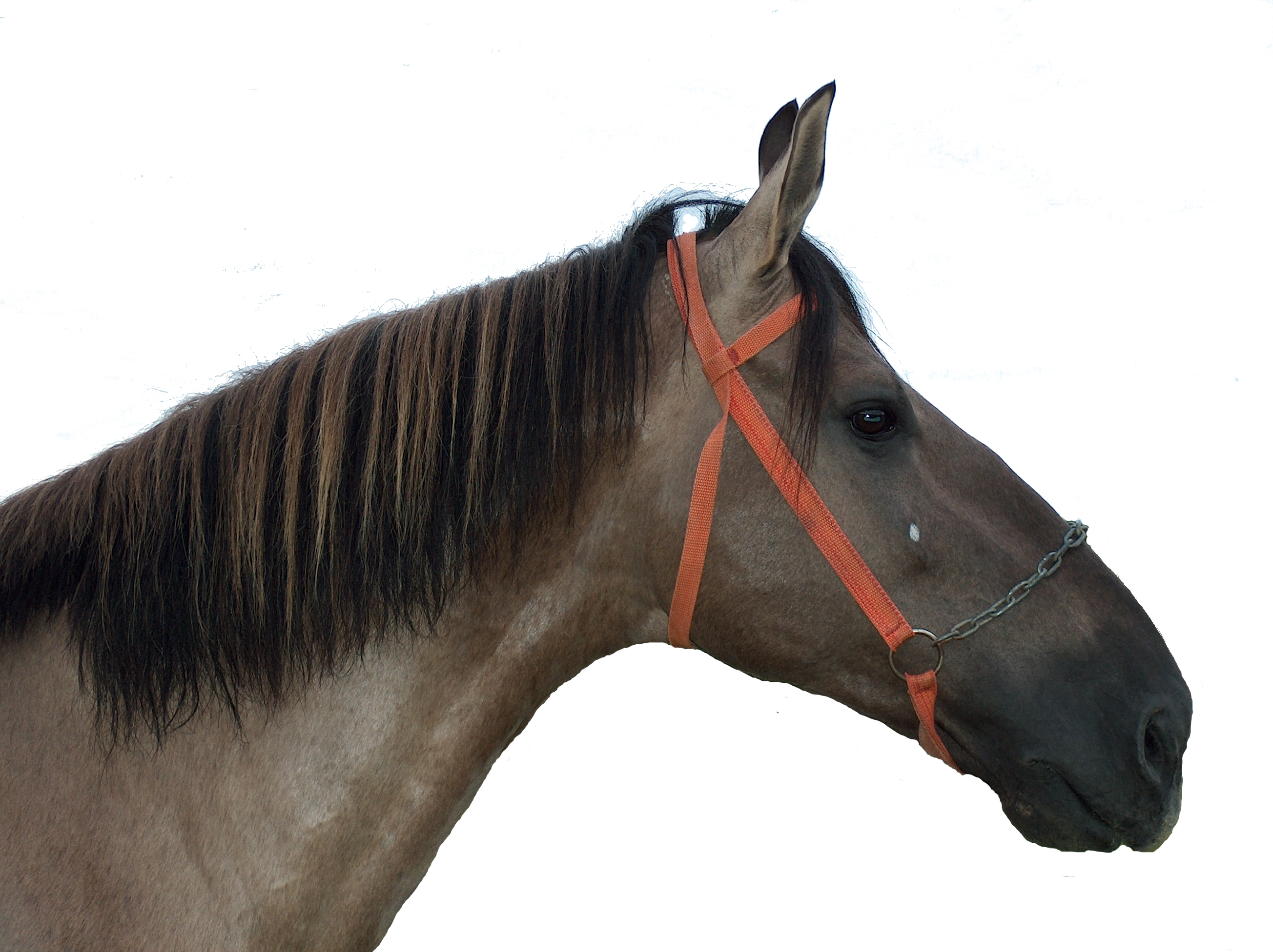 Campolina head conformation - profile